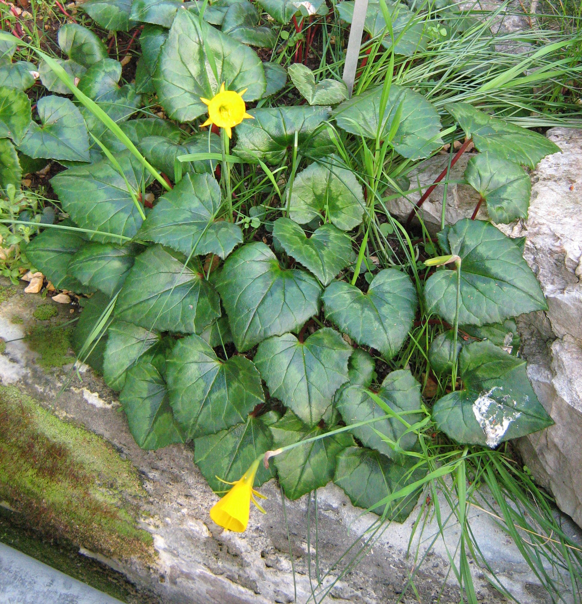 Narcissus bulbocodium amid leaves of Cyclamen hederifolium in the botanic garden of Berne